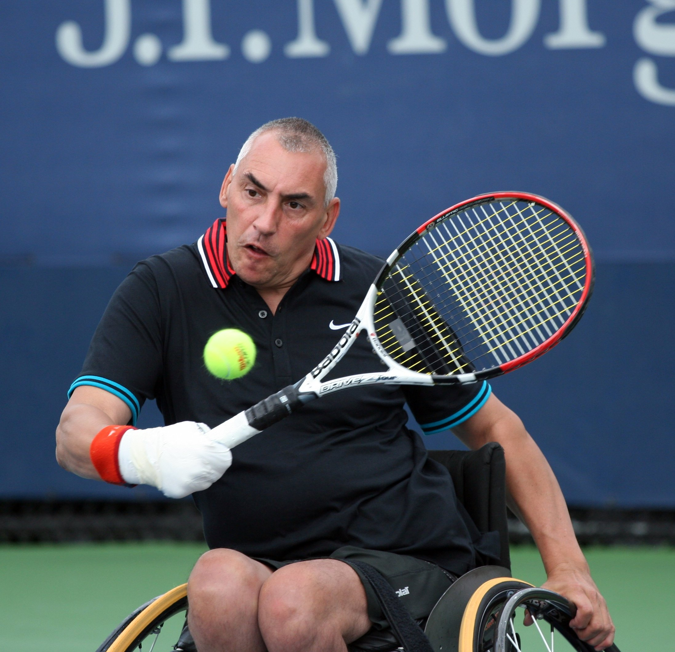 U.S. Open Wheelchair Thursday, Sept. 10, 2009